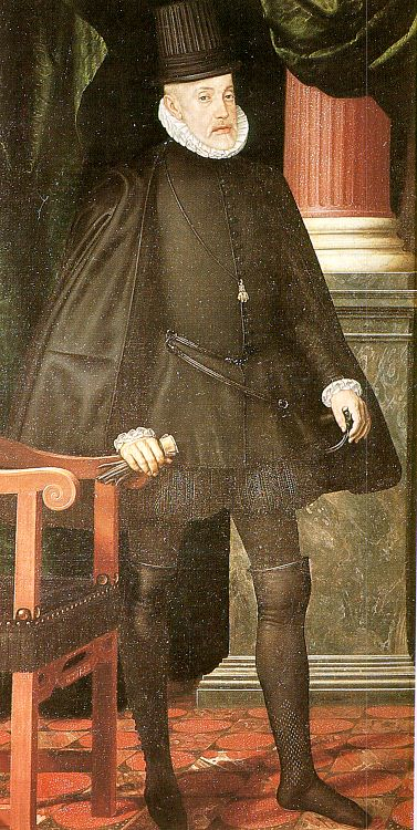 Portrait of Philip II of Spain (1527-1598)